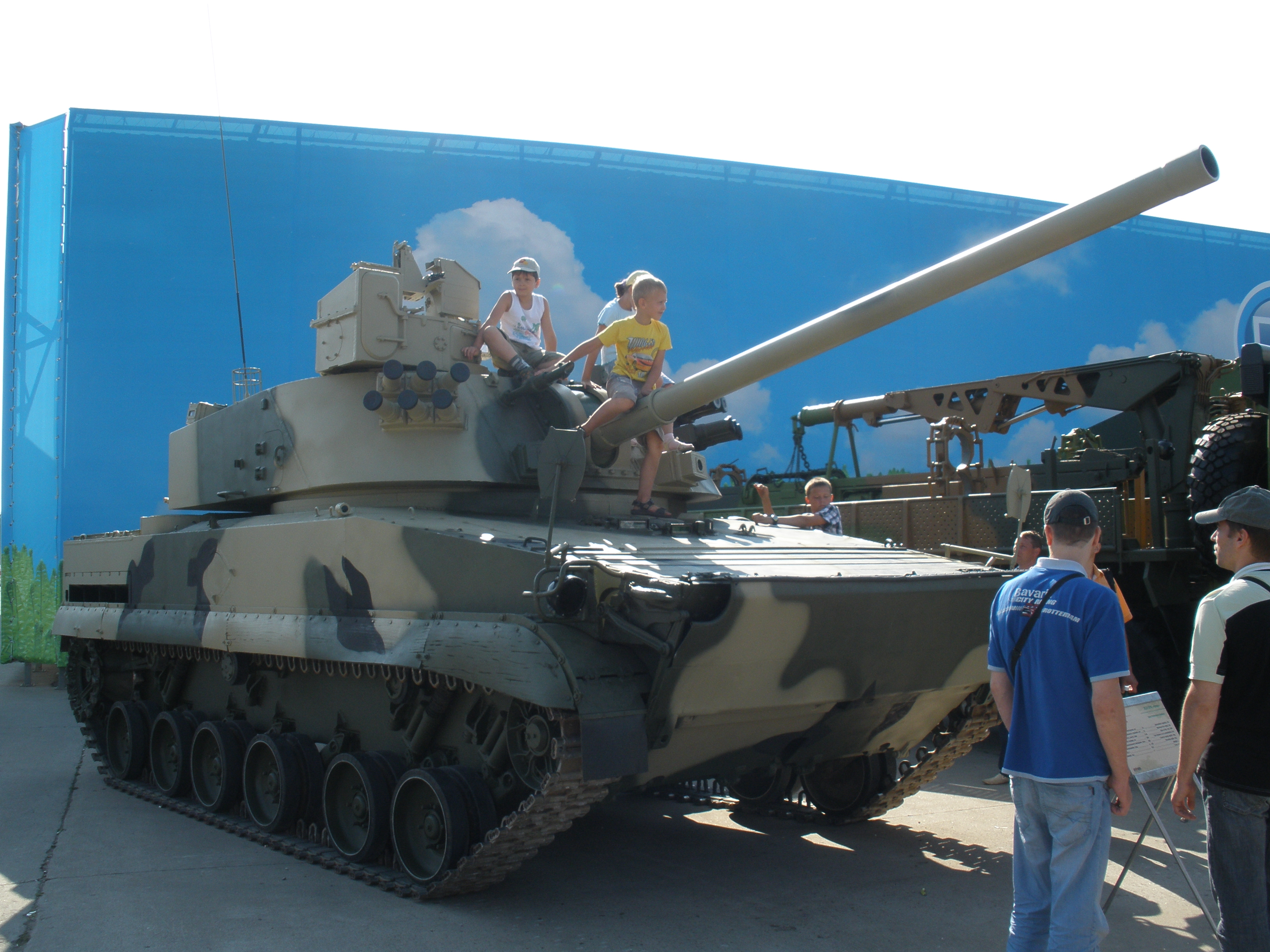 2S31 "Vena" self-propelled howitzer-mortar at "Engineering Technologies 2010" forum